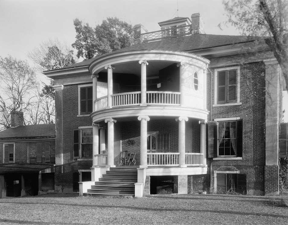 View of the facade of 'Monticola,' near Howardsville, Albemarle County, Virginia, by the American photographer and photojournalist Frances Benjamin Johnston. The 8 x 10 safety film negative is dated 1935, and forms part of the Johnston archives at the Library of Congress, to which the photographer bequeathed her work in perpetuity, hence there are no restrictions on publication. Image courtesy of the Prints and Photographs Division, Library of Congress, Washington, D.C.